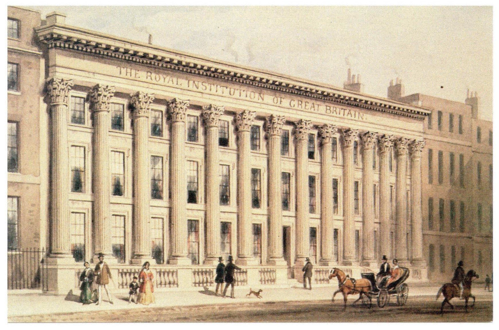 Painting of the Royal Institution of Great Britain (in London, England)